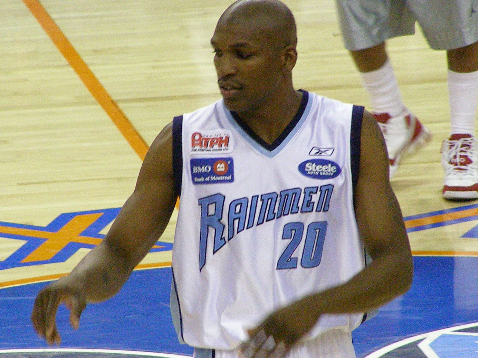 Atlanta Vision at Halifax Rainmen (March 14 2008)